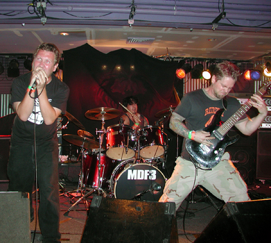 Pig Destroyer @ Maryland Deathfest III w/ Scott Hull on guitar at Maryland Deathfest III.